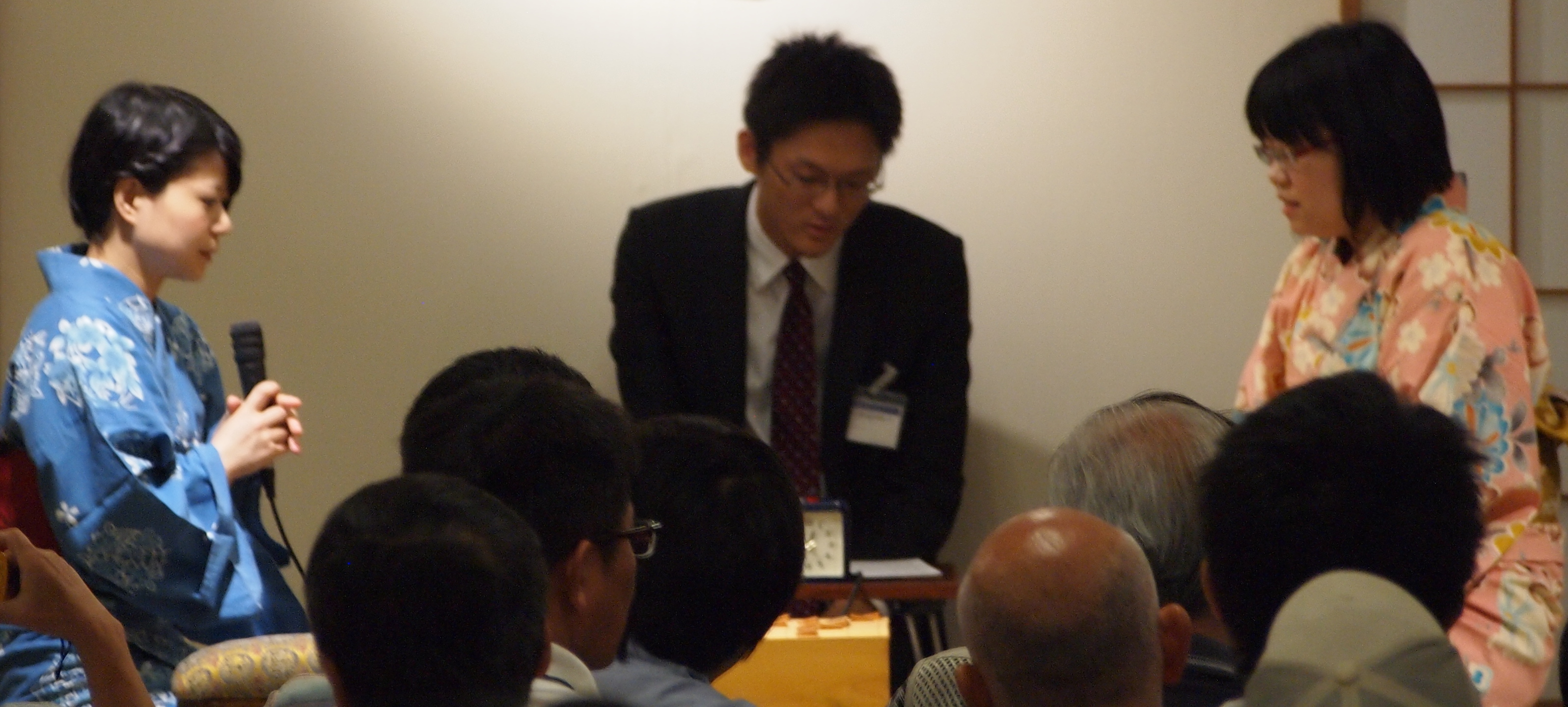 Women's professional shogi player 相川春香 Haruka Aikawa (sitting on right in orange kimono) in 2013 playing against an amateur player.